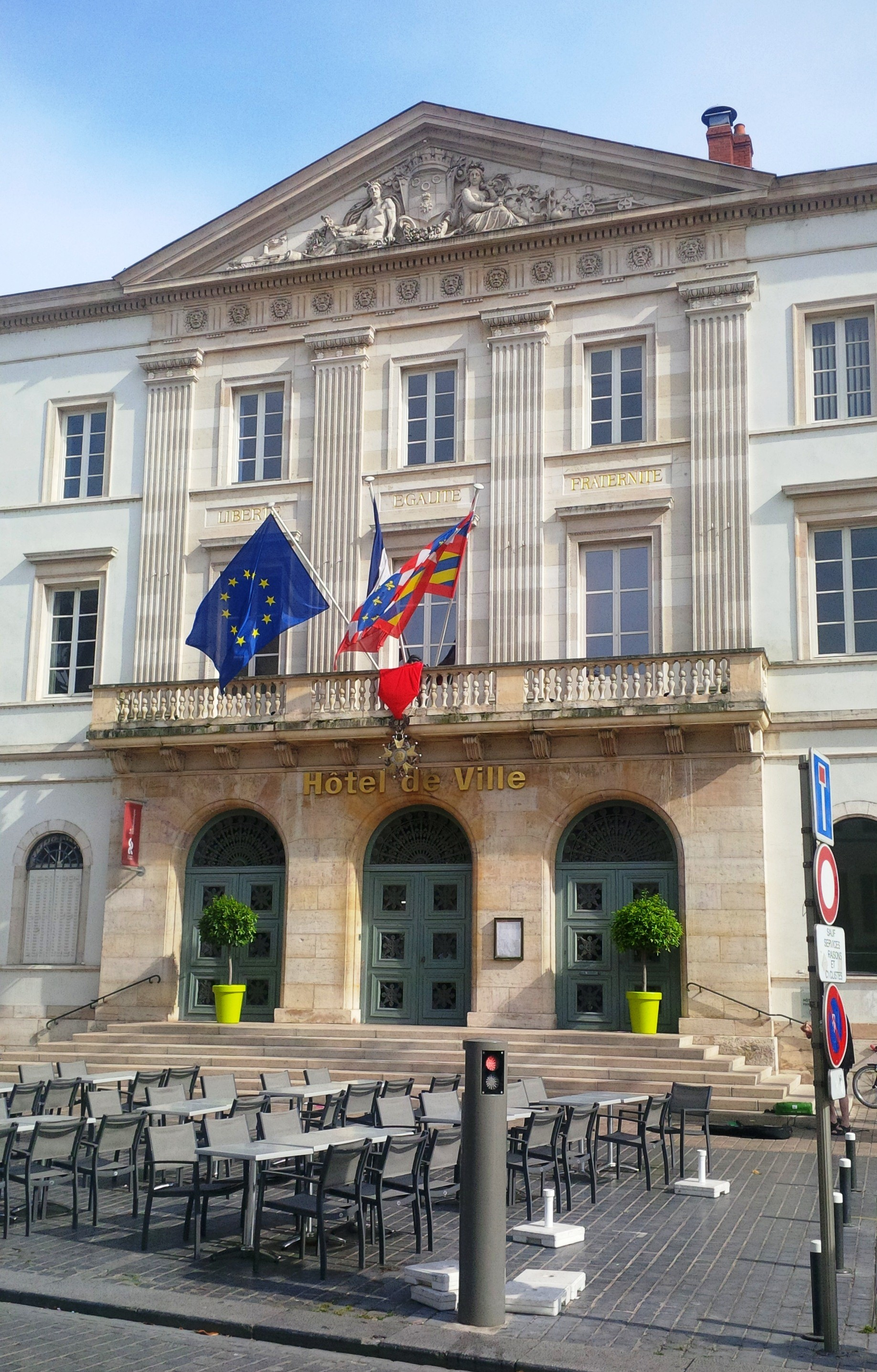 Town Hall of Chalon-sur-Saône 2015